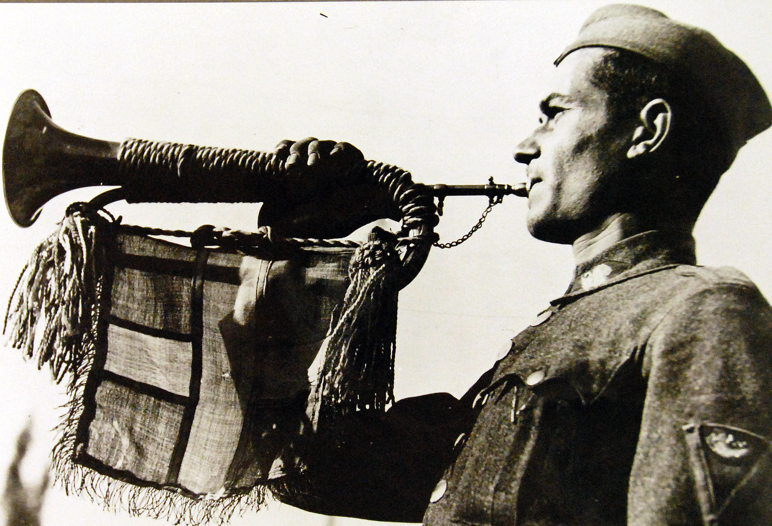 Lot 11618-8: A Greek trumpeter, 1940-41. Office of War Information Photograph, 91231-ZC. (2016/01/22).